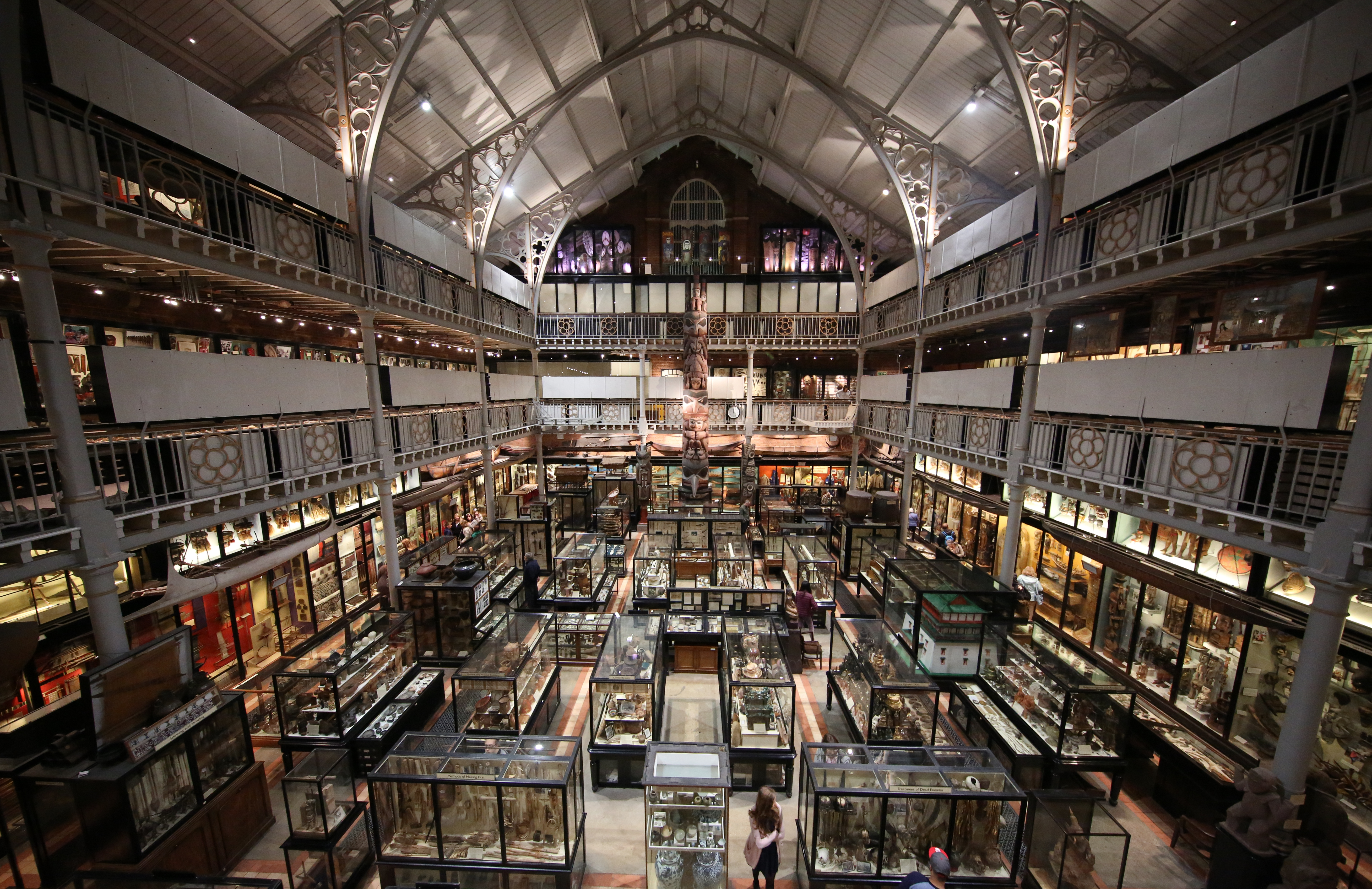 Photo of the interior of Pitt Rivers Museum from the second floor facing away from the entrance.